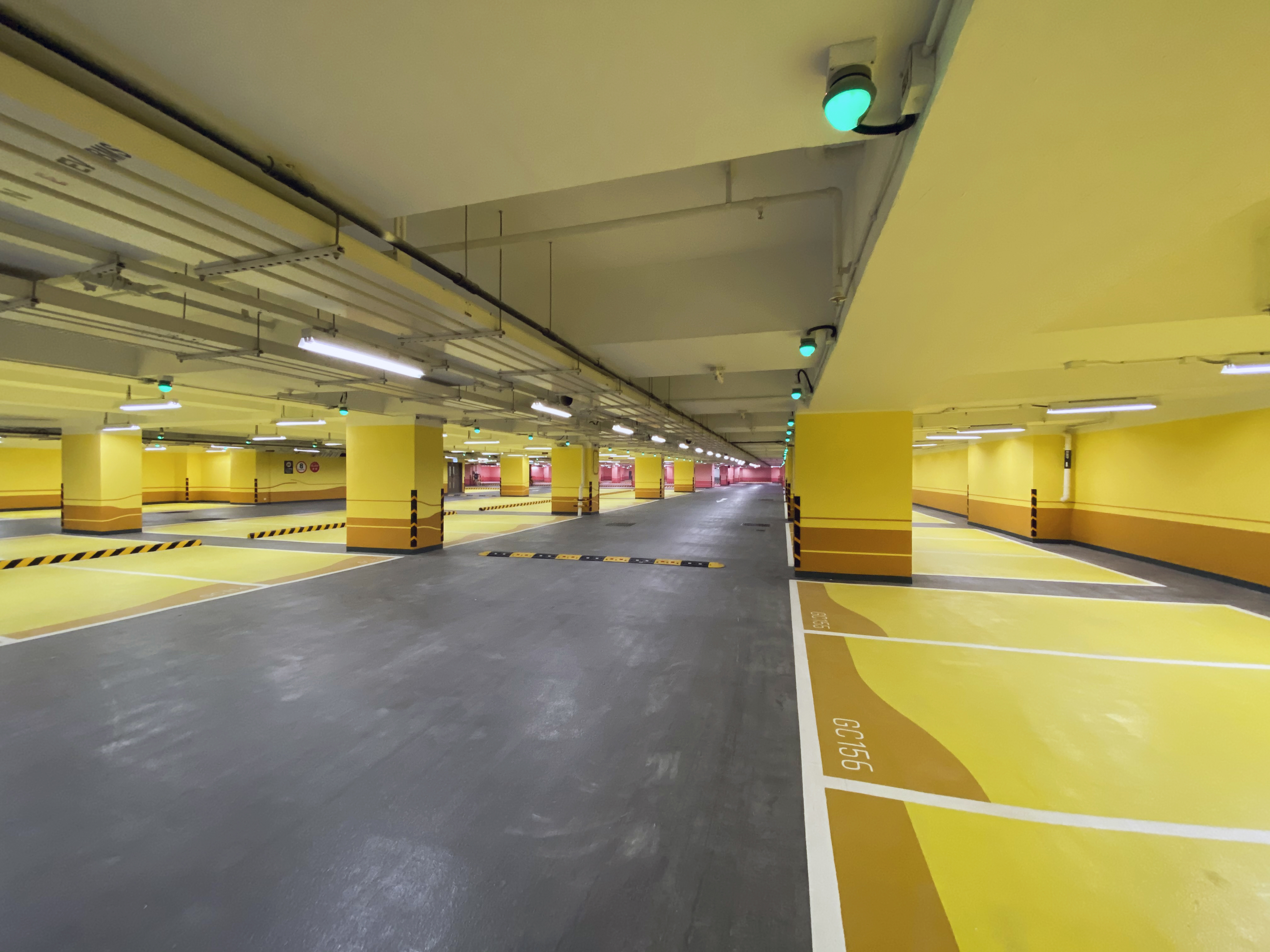 THE LOHAS GF Carpark